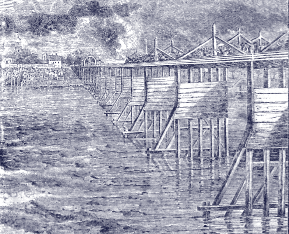 Picture drawn for a 1836 poster named ‘Departure of Volunteers for Florida.'